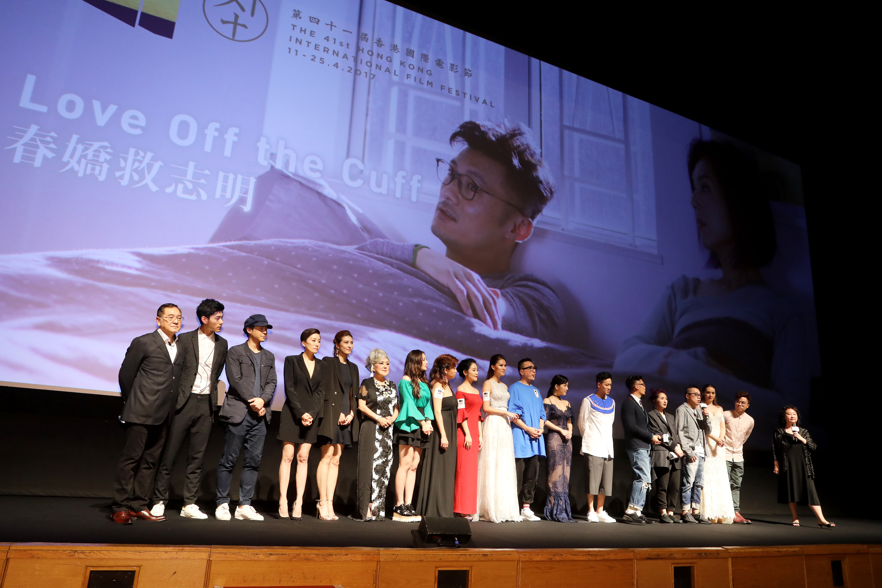 HKIFF41 Opening film Love Off the Cuff